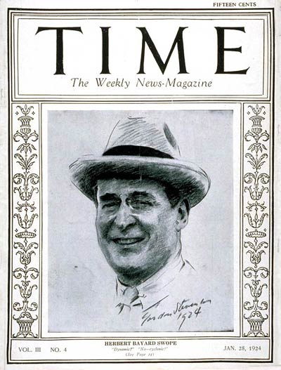 TIME Magazine Cover Featuring Herbert Bayard Swope (28 Jan 1924)